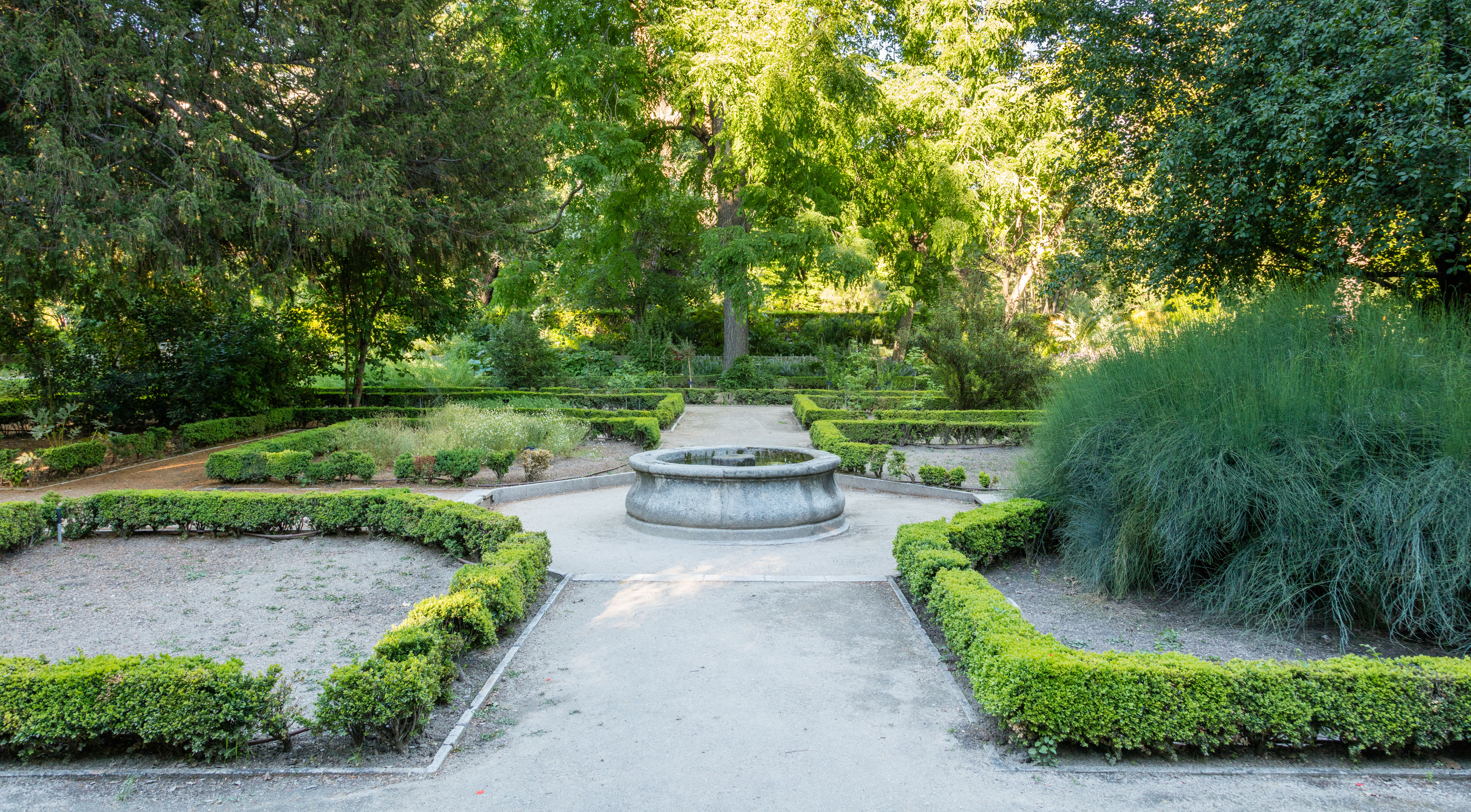 Royal Botanic Garten, Madrid, Spain